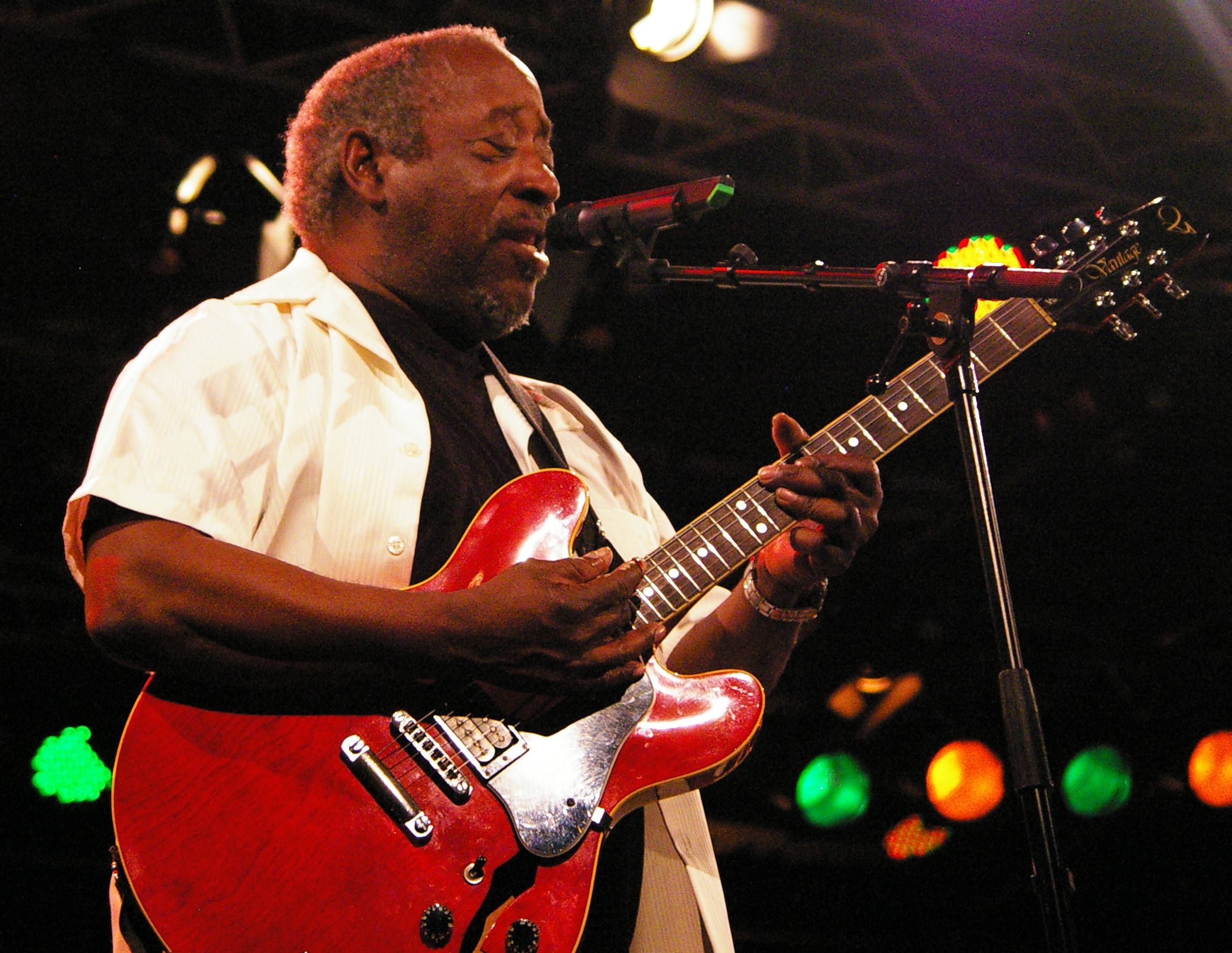 Guitarist for Music Maker Revue